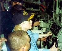 Tipper Gore at the helm of the USS Greeneville during a VIP visit in 1999.